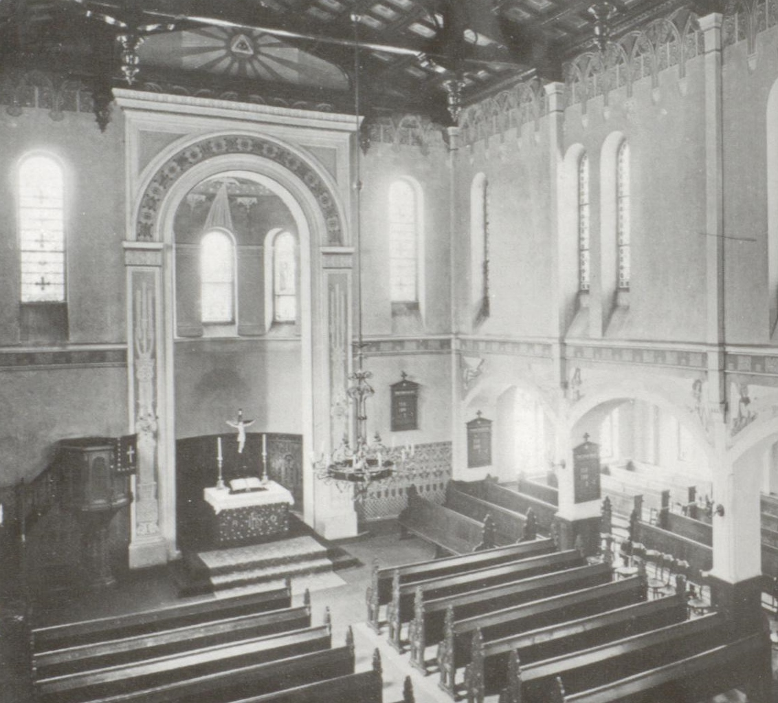 Interior of Chapel at Bethanien, c. 1910